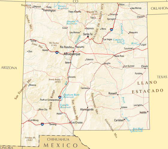 Map of New Mexico, USA